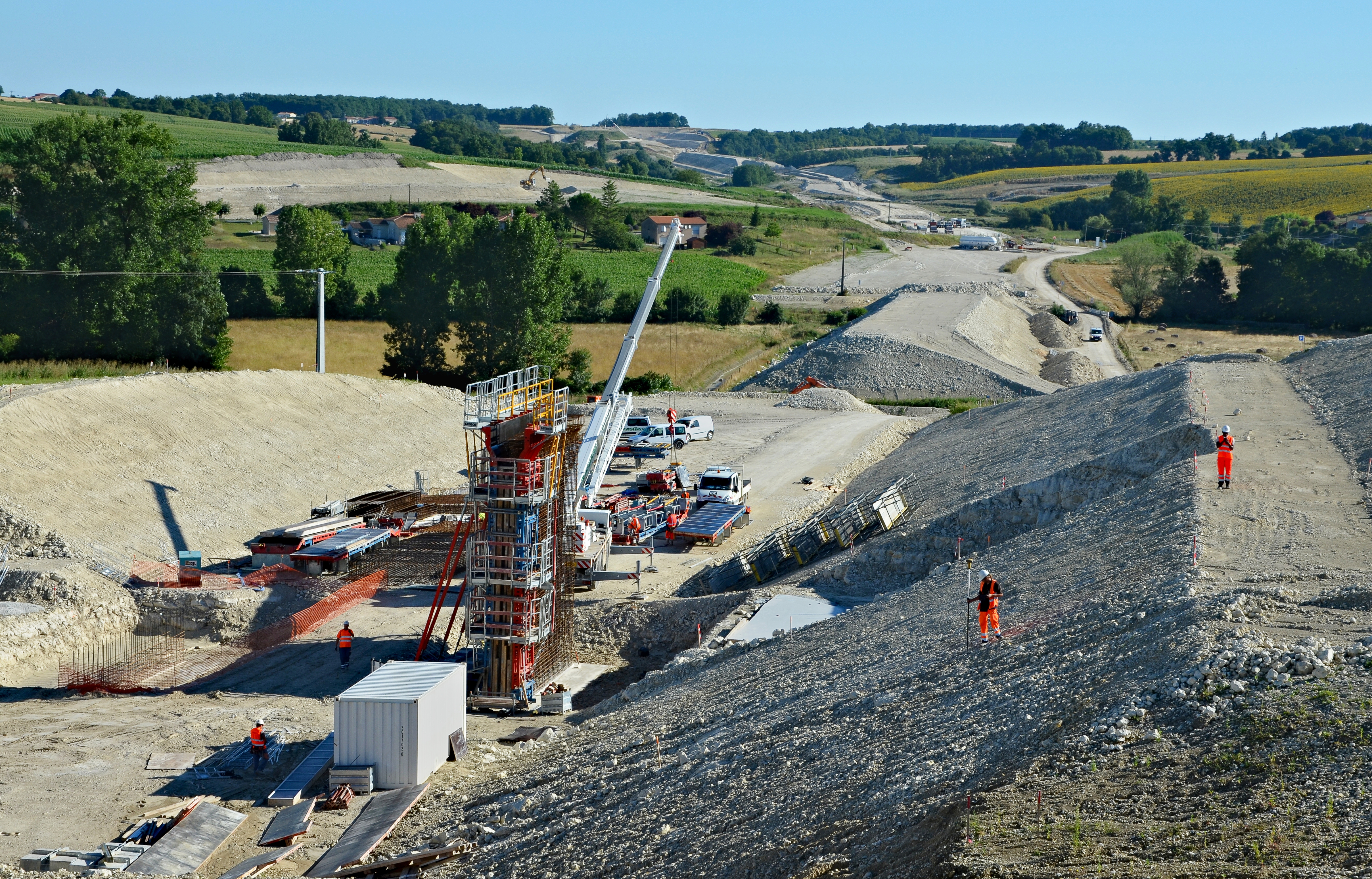 Works in progress on LGV Sud Europe Atlantique, Blanzac-Porcheresse, Charente, France.